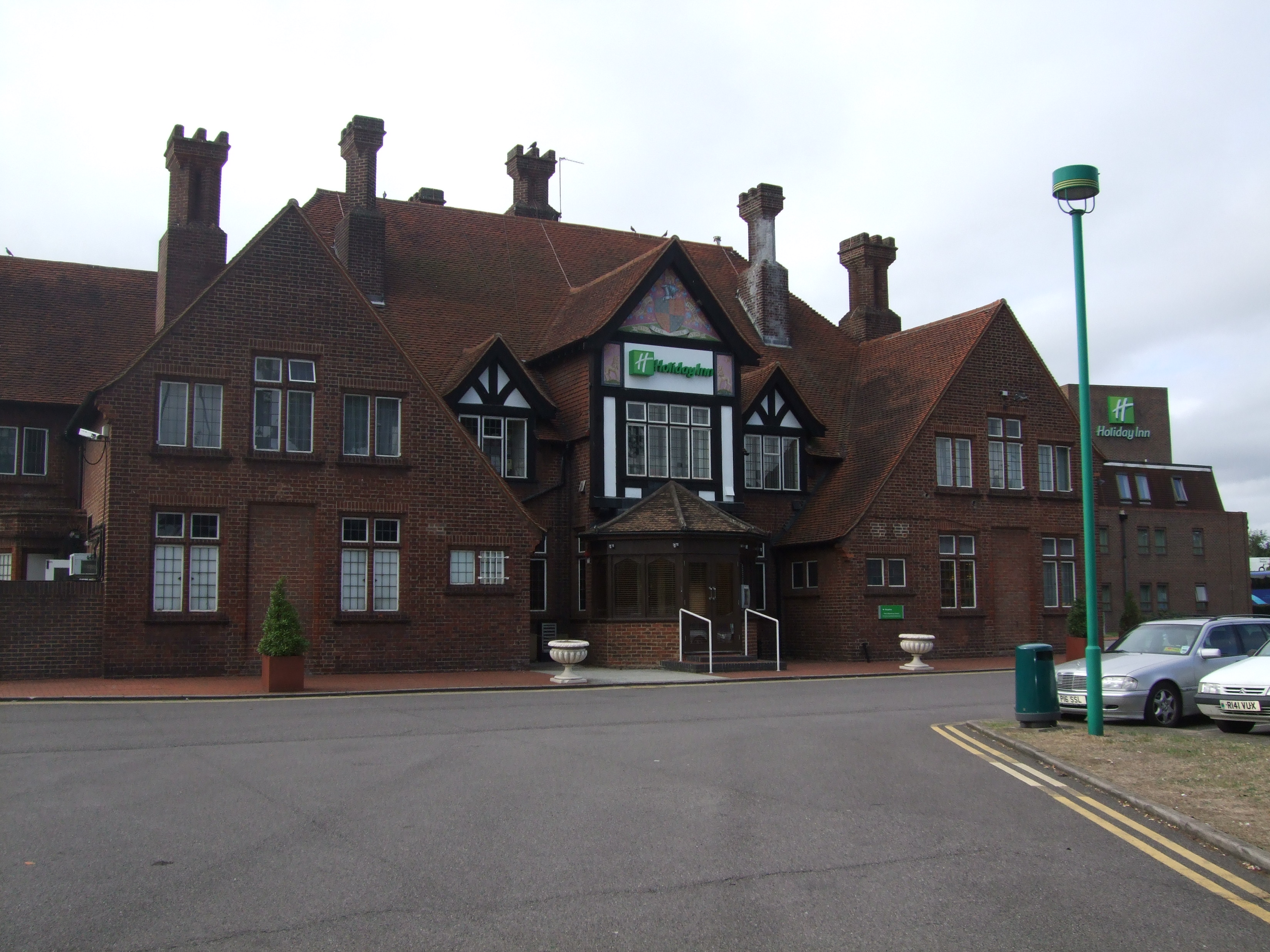 Holiday Inn (or Black Prince) at Bexley. To the older locals this was the former Black Prince public house. Situated adjacent to the busy A2 road. Much has changed over the years and the character I think has been lost. The heraldic arms can still be seen above the hotel sign. The main function room now appears to be an office above what was the main entrance - centre piece.